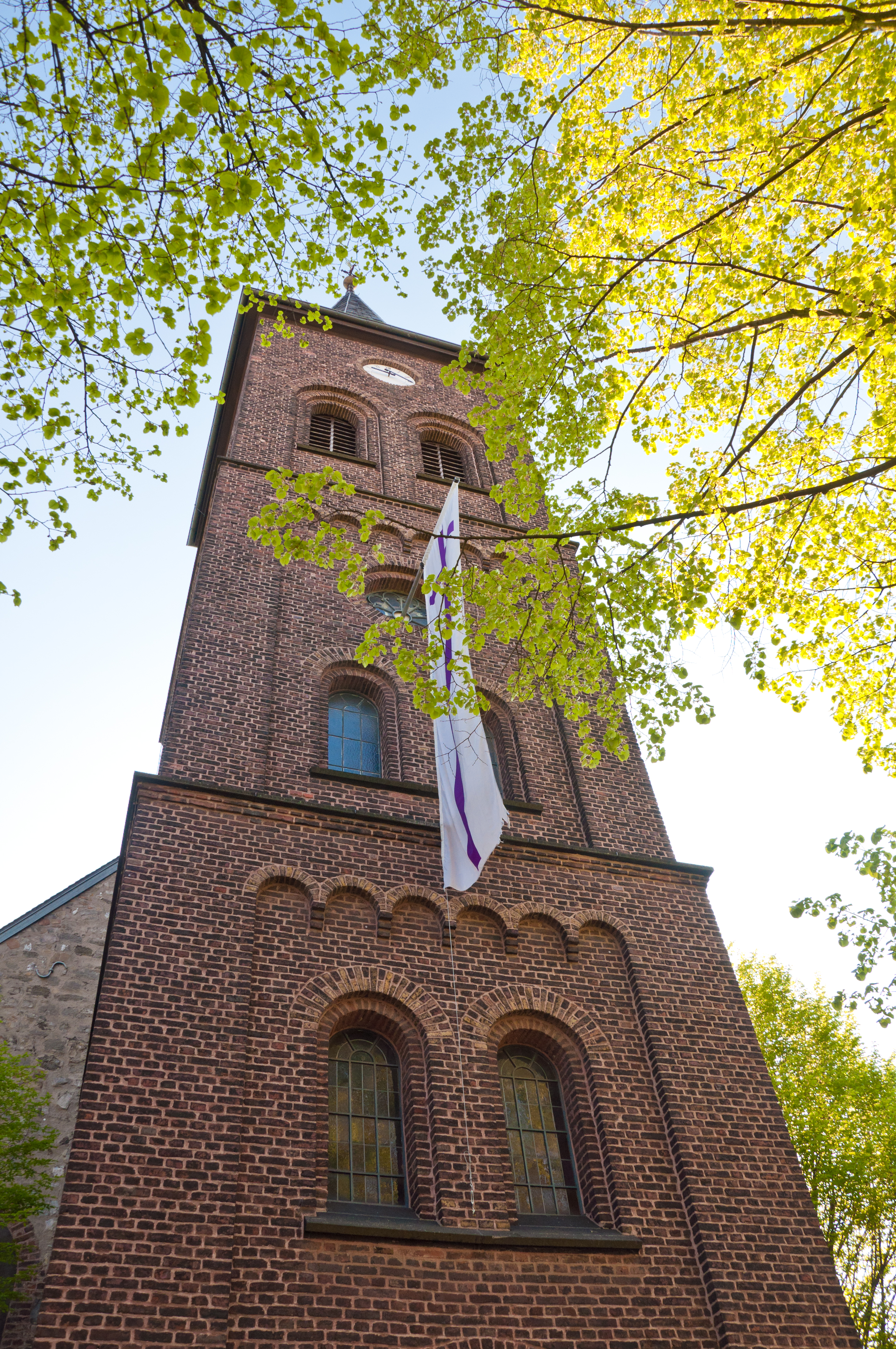 Bell tower of the Evangelische Stadtkirche in Ratingen